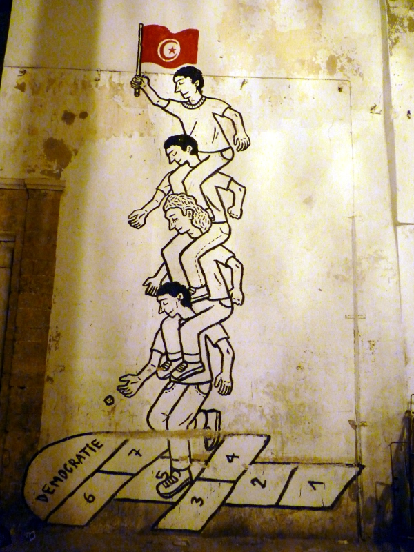 Hopscotch in a political street art mural at Tunis